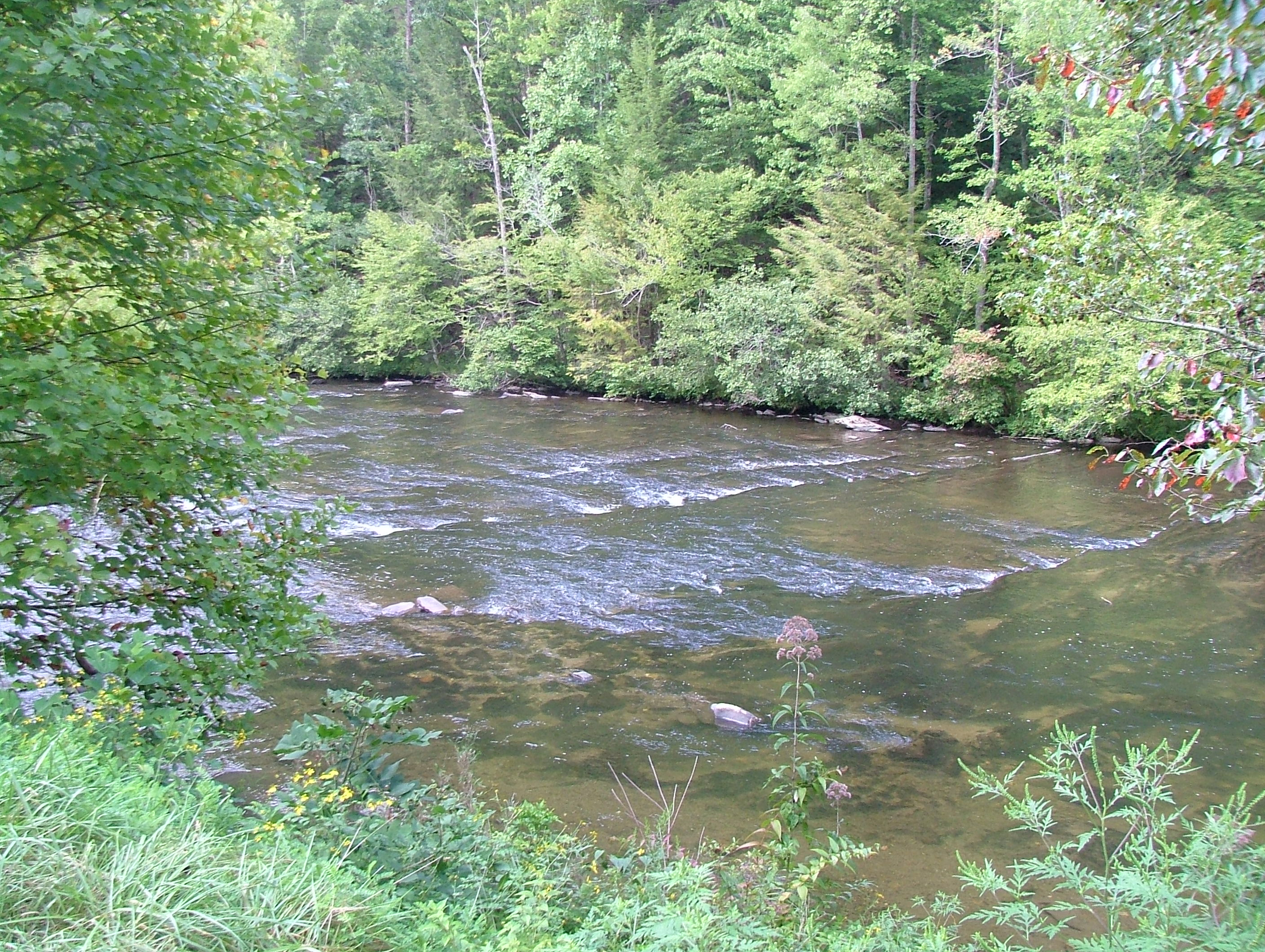 Tellico River, just north of the town Tellico Plains on 9/2/06